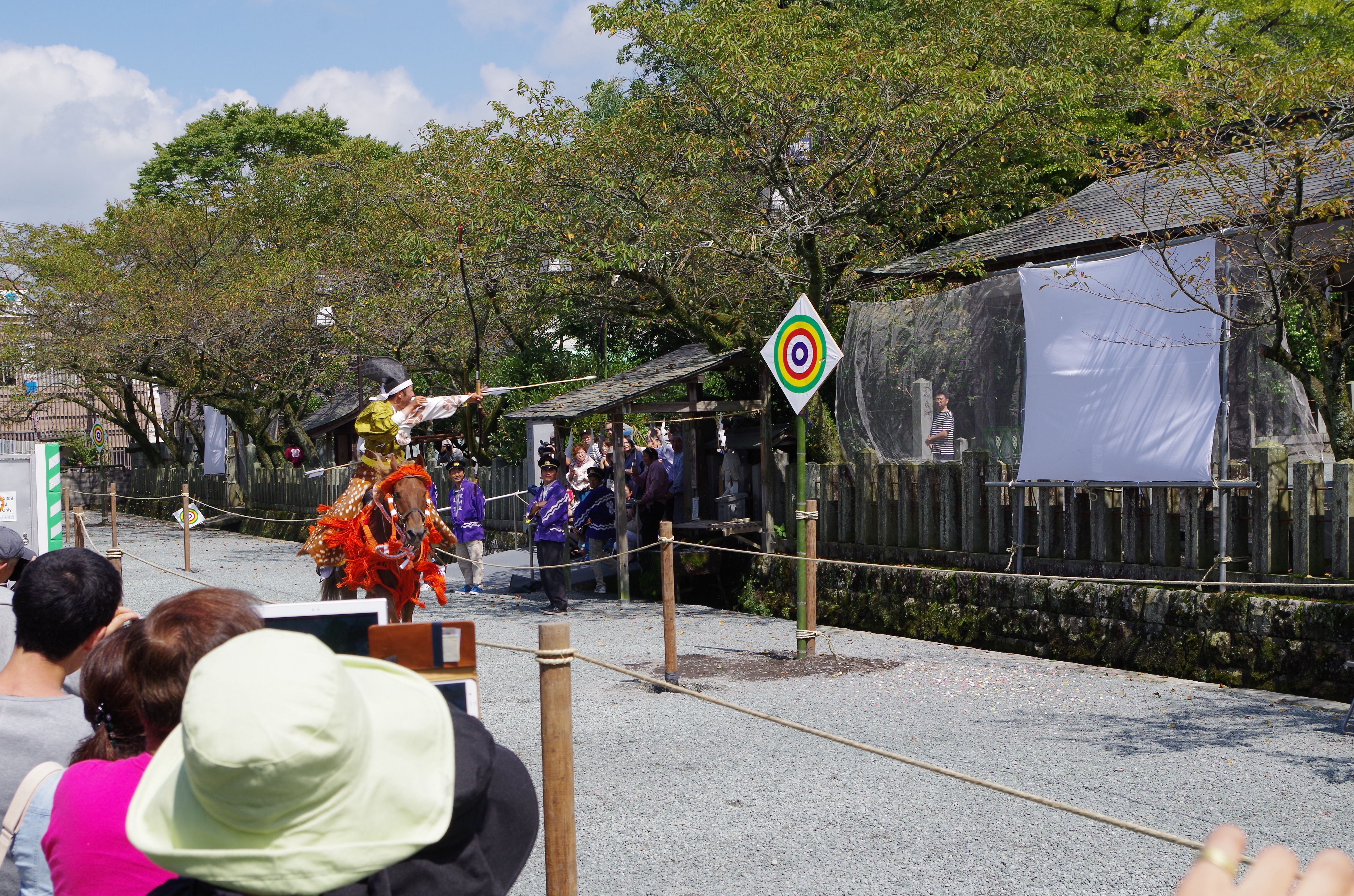 Yabusame is one of the events held during the Tanomi Sai in September in Aso City, Kumamoto.